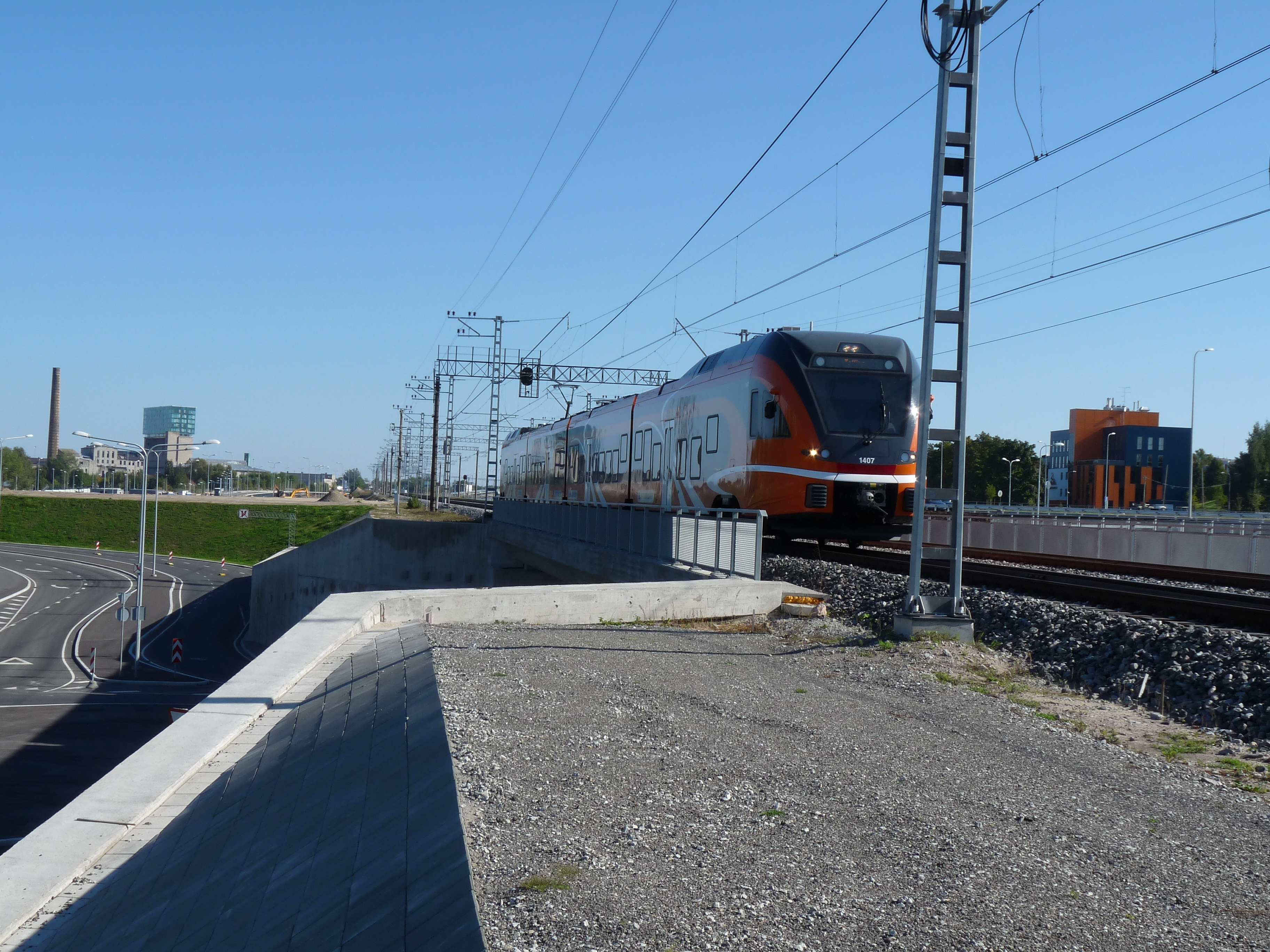 Stadler FLIRT train between Järvevana and Tehnika streets in Tallinn, Estonia